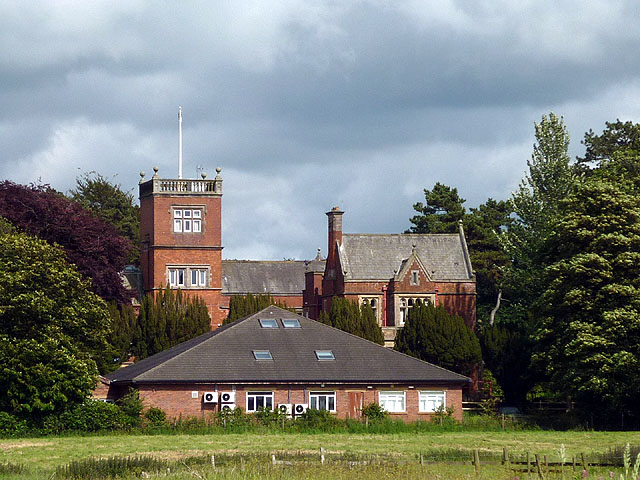 Photograph of Winmarleigh Hall